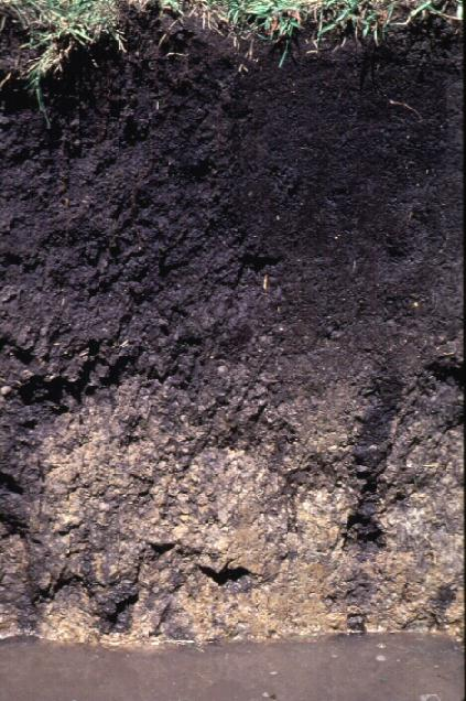 Representative image of the Drummer soil series, the state soil of Illinois